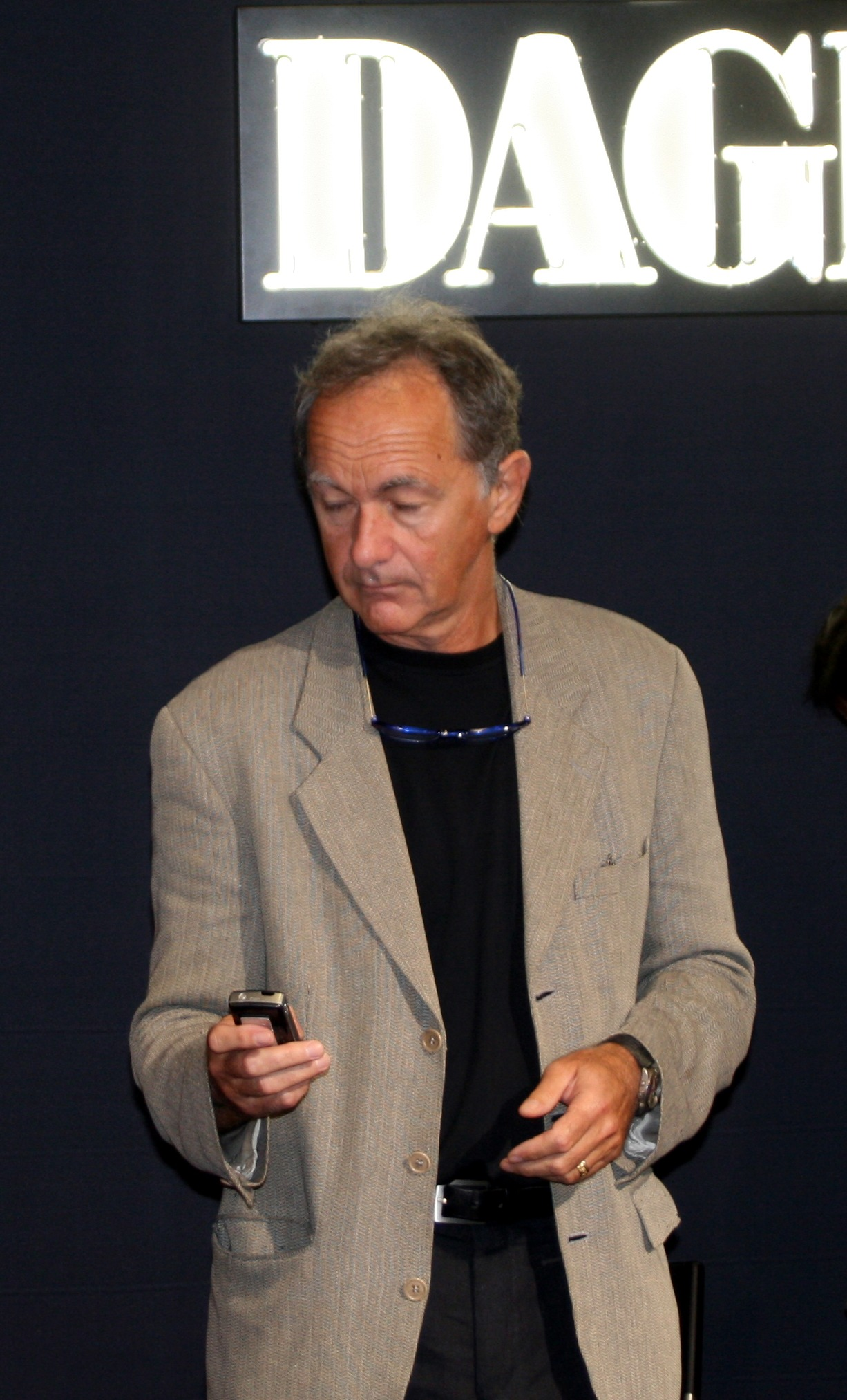 Maciej Zaremba, at Göteborg Book Fair.